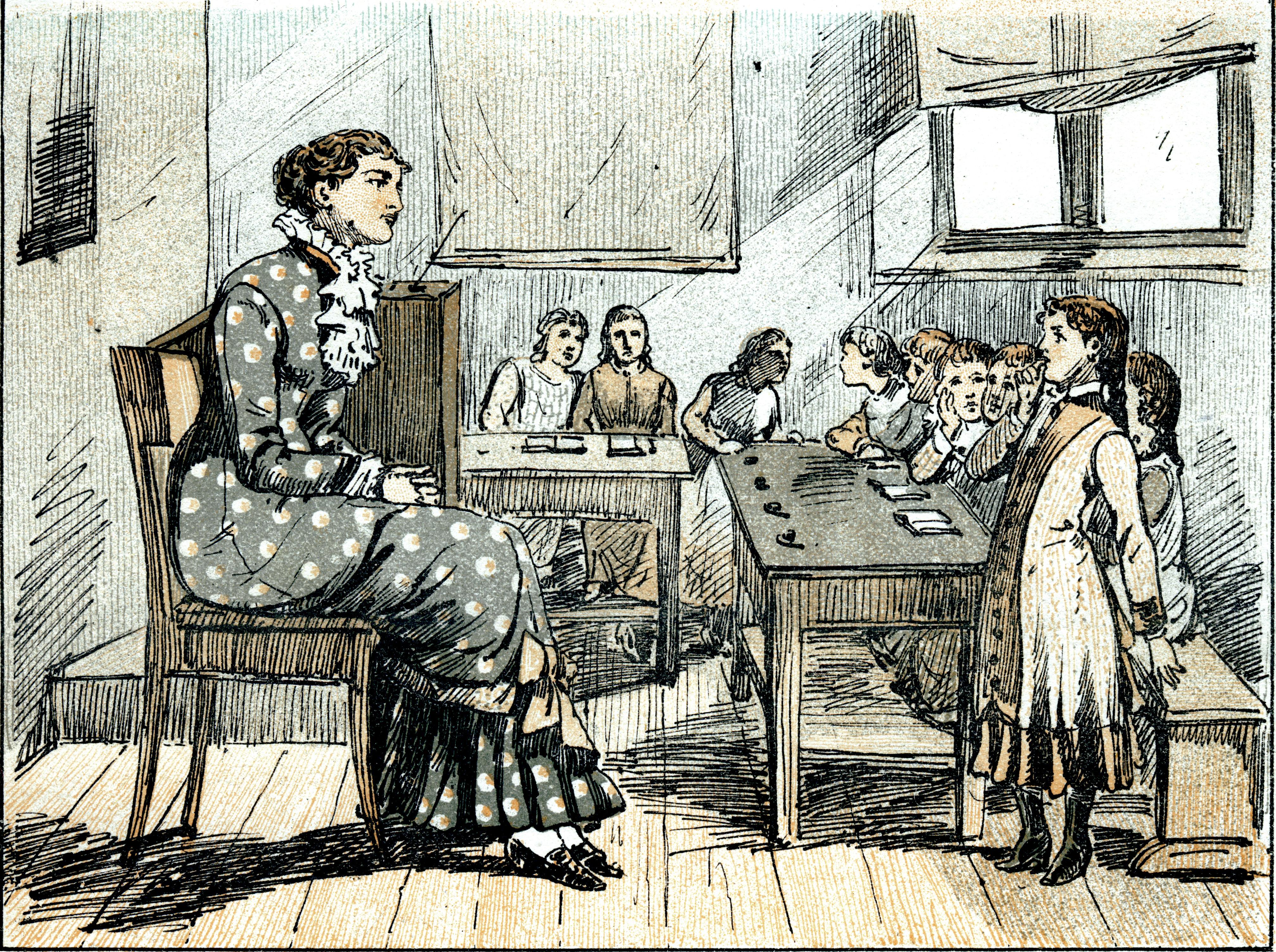 Of course. — What is so "monster" of a word? — It's an adjective. — But when I say: You're a monster! What is it then for a word? — So it's a words of abuse!